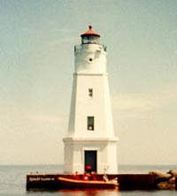 Downloaded from National Park Service - Inventory of Historic Light Stations, Wisconsin Lighthouses Caption Ashland Harbor Breakwater Lighthouse Photo courtesy John Kelly, General Services Administration